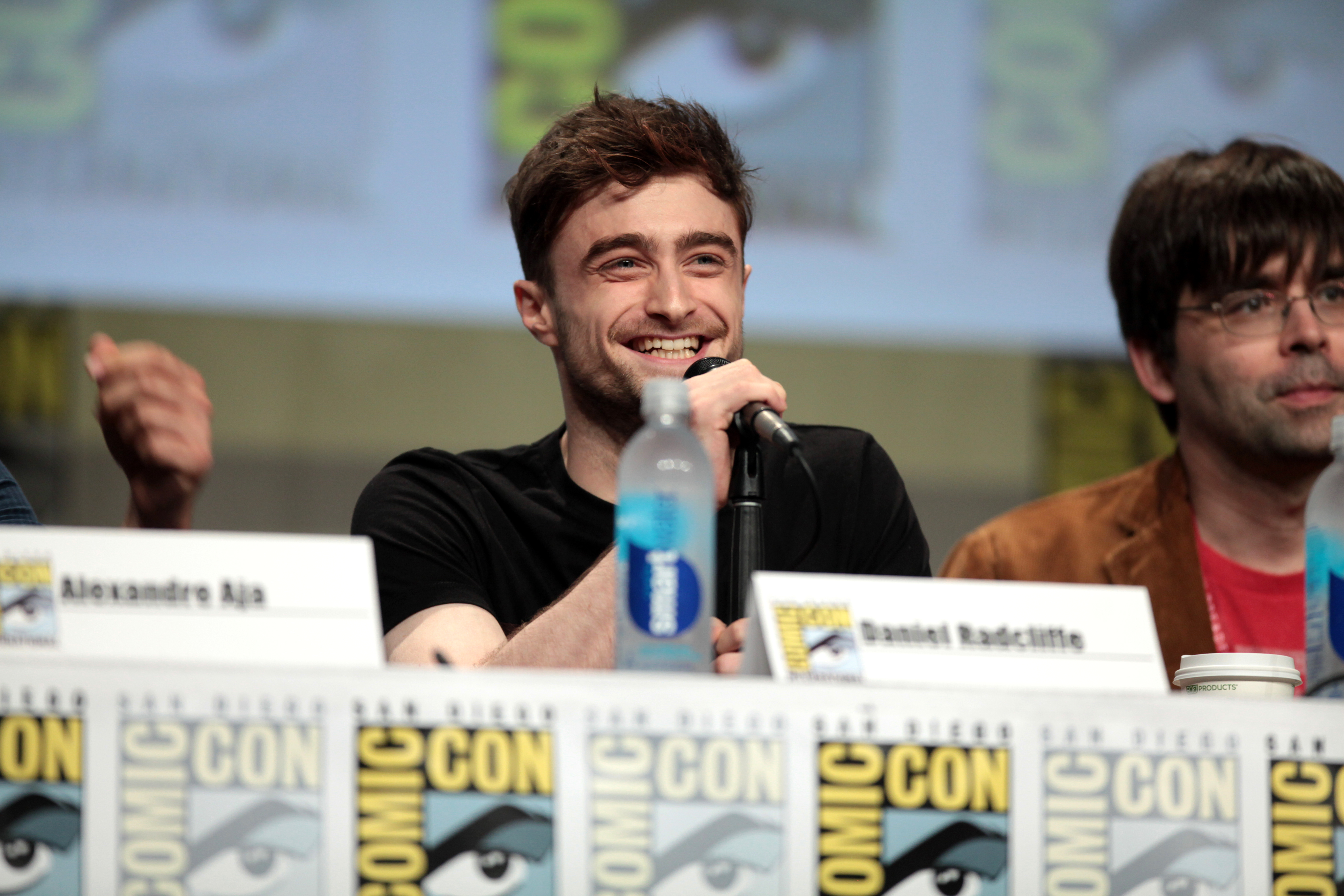 Daniel Radcliffe speaking at the 2014 San Diego Comic Con International, for "Horns", at the San Diego Convention Center in San Diego, California.